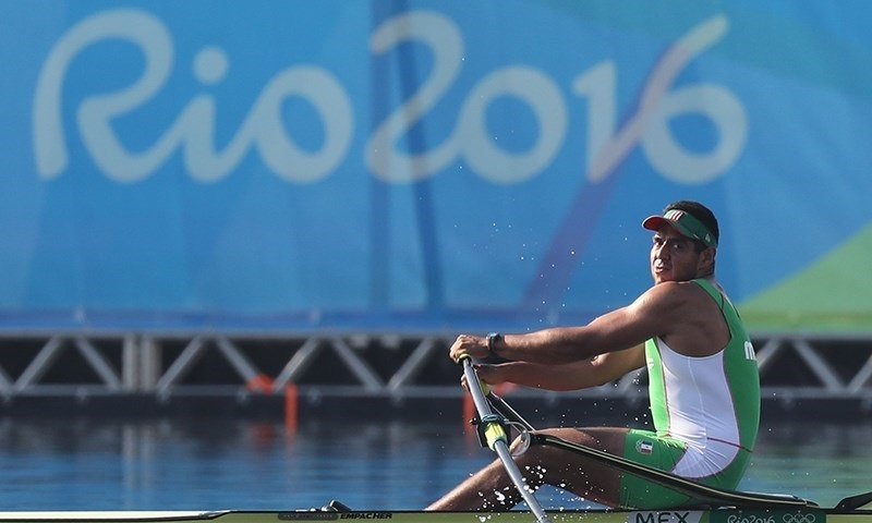 2016 Summer Olympics - Rowing - Men's single sculls